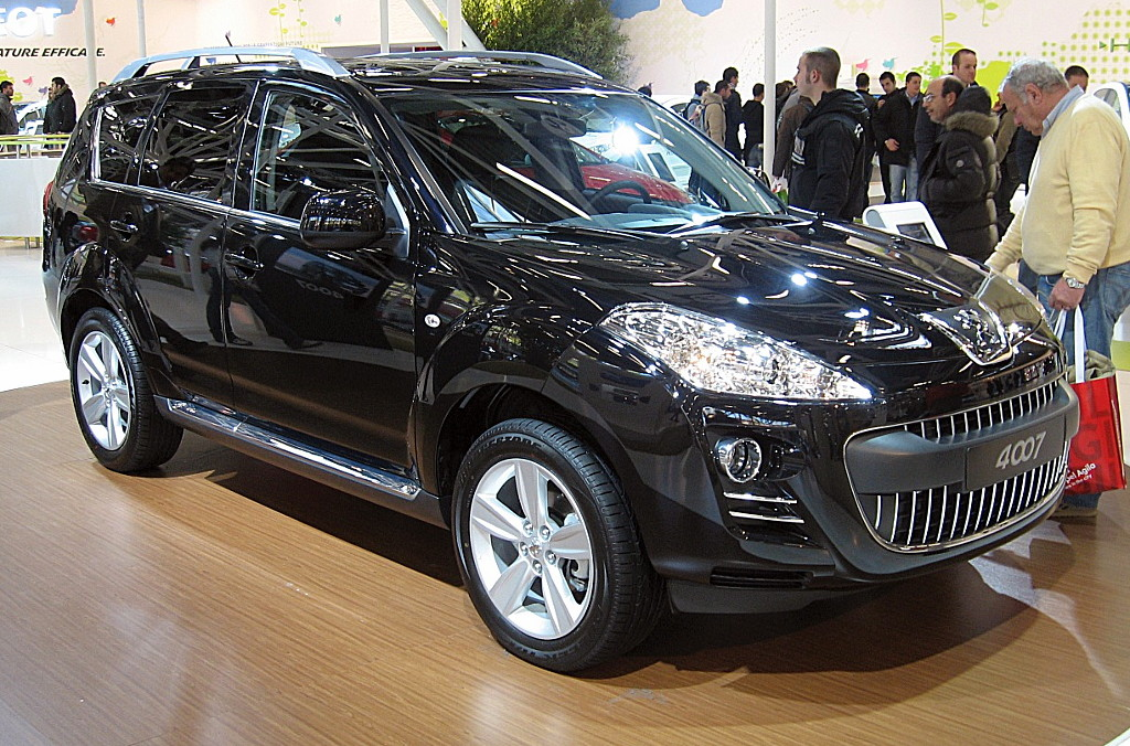 Subject:Peugeot 4007 Author:Luc106 Date:December 13th, 2007 Event:Motor Show Bologna 2007 Place/Country: Bologna, Italy I release all rights in the public domain.